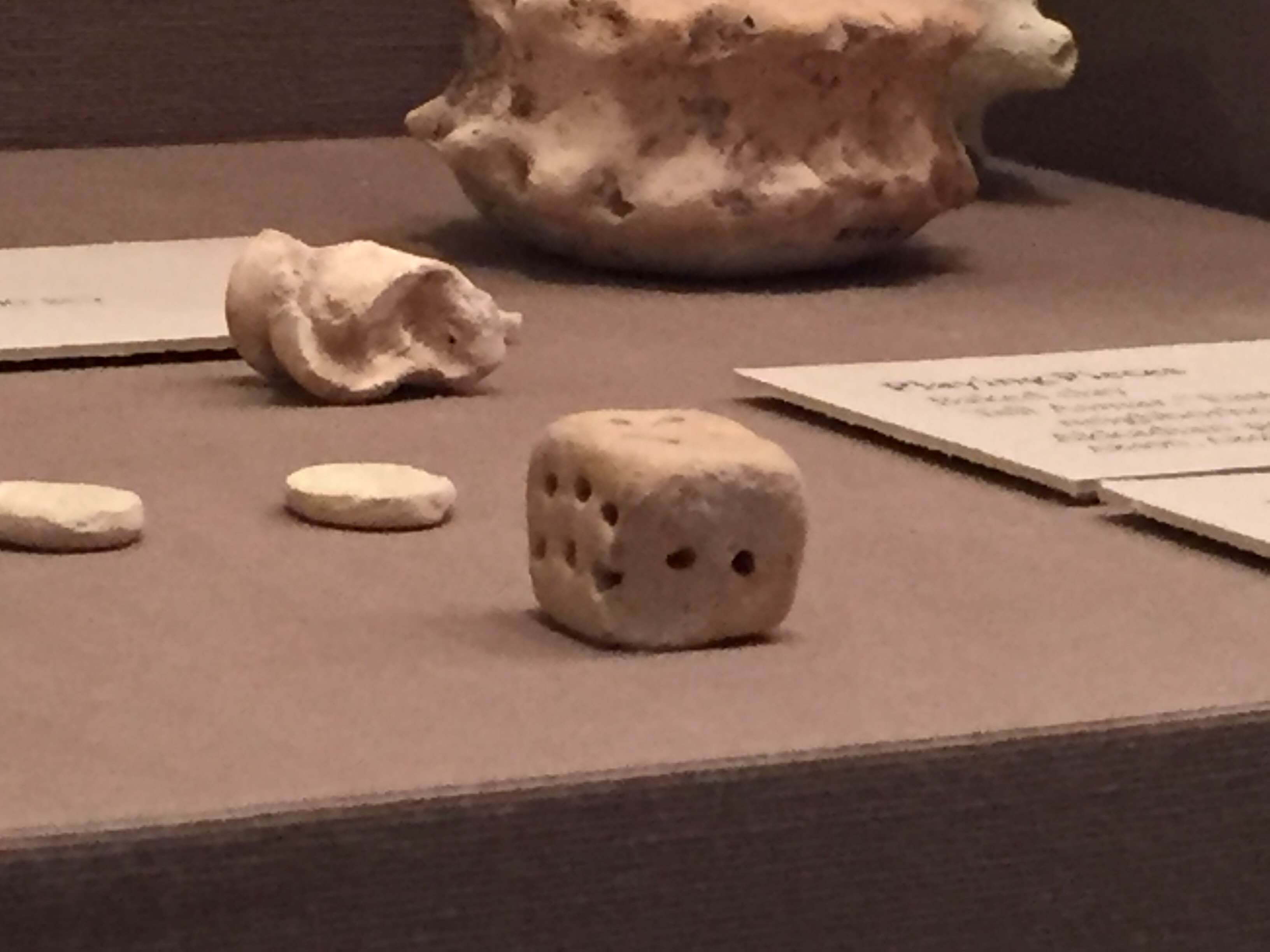 Dice. Baked Clay. Khafajah, mound A, foundation area. Akkadian period (2350-2150 BC). Photographed at the University of Chicago's Oriental Institute Museum